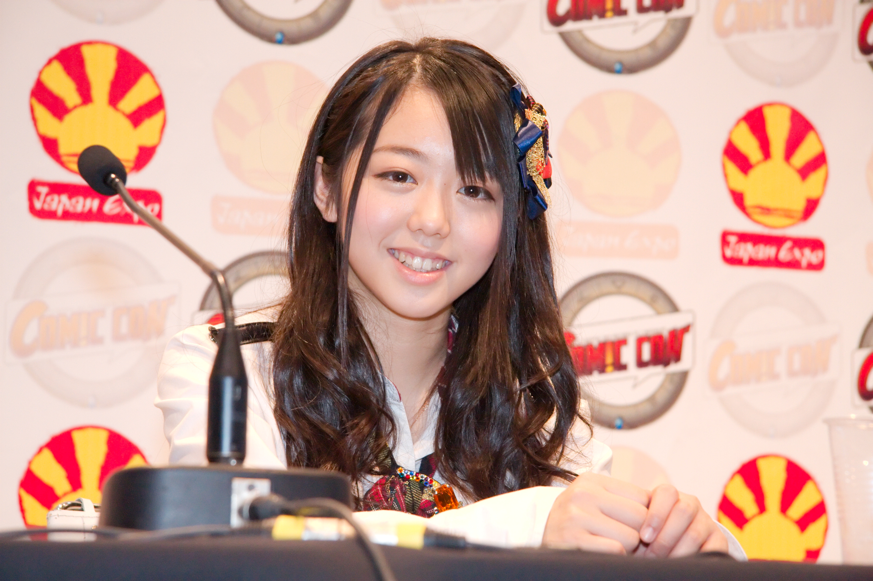 Minami Minegishi of AKB48 during lecture at Japan Expo 2009 (Paris, France).